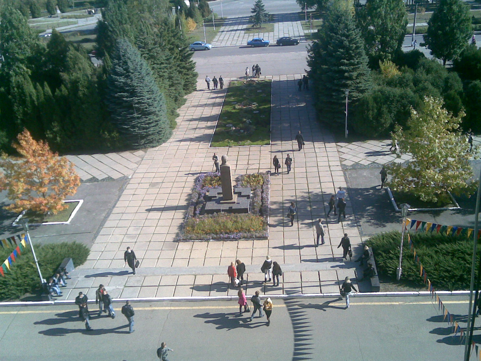 View of the center of Komunist, Kharkiv Oblast, Ukraine